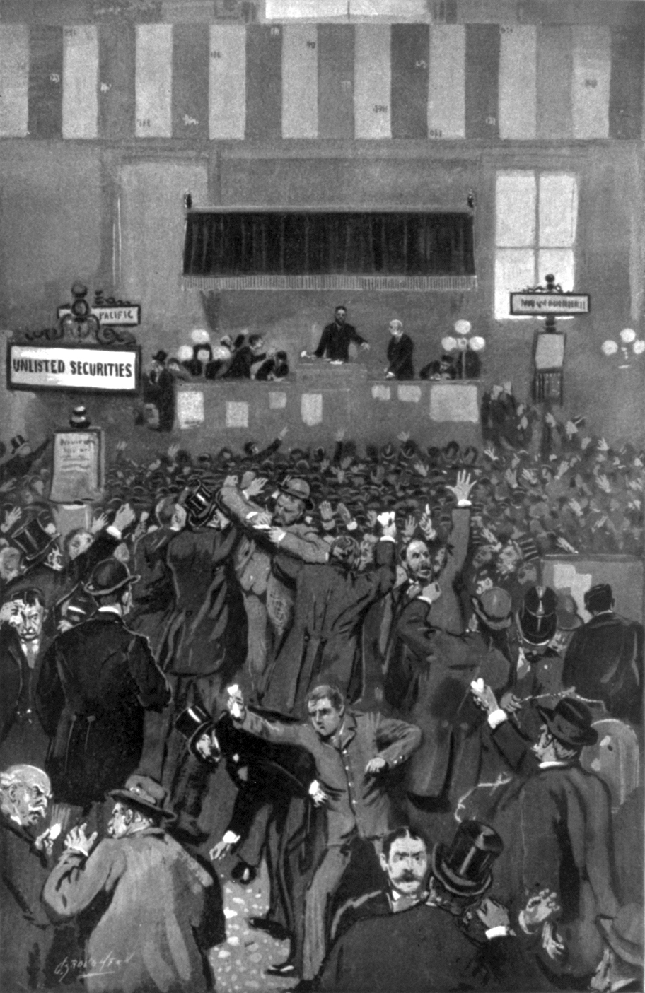 "The recent panic scene in the New York Stock Exchange on the morning of Friday, May 5th." Illus. in: Frank Leslie's Illustrated Newspaper, 1893 May 18, p. 322.